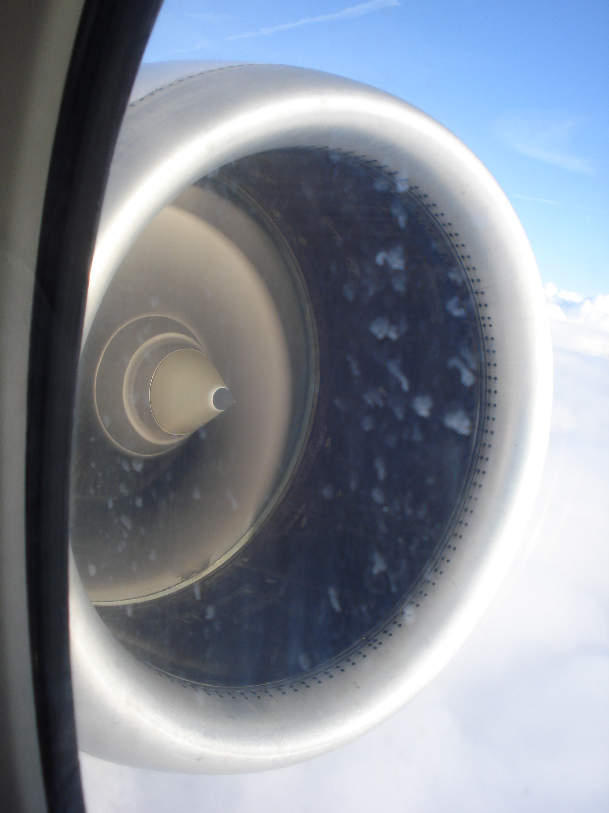 View of the jet from the window of a KLM Fokker 100.